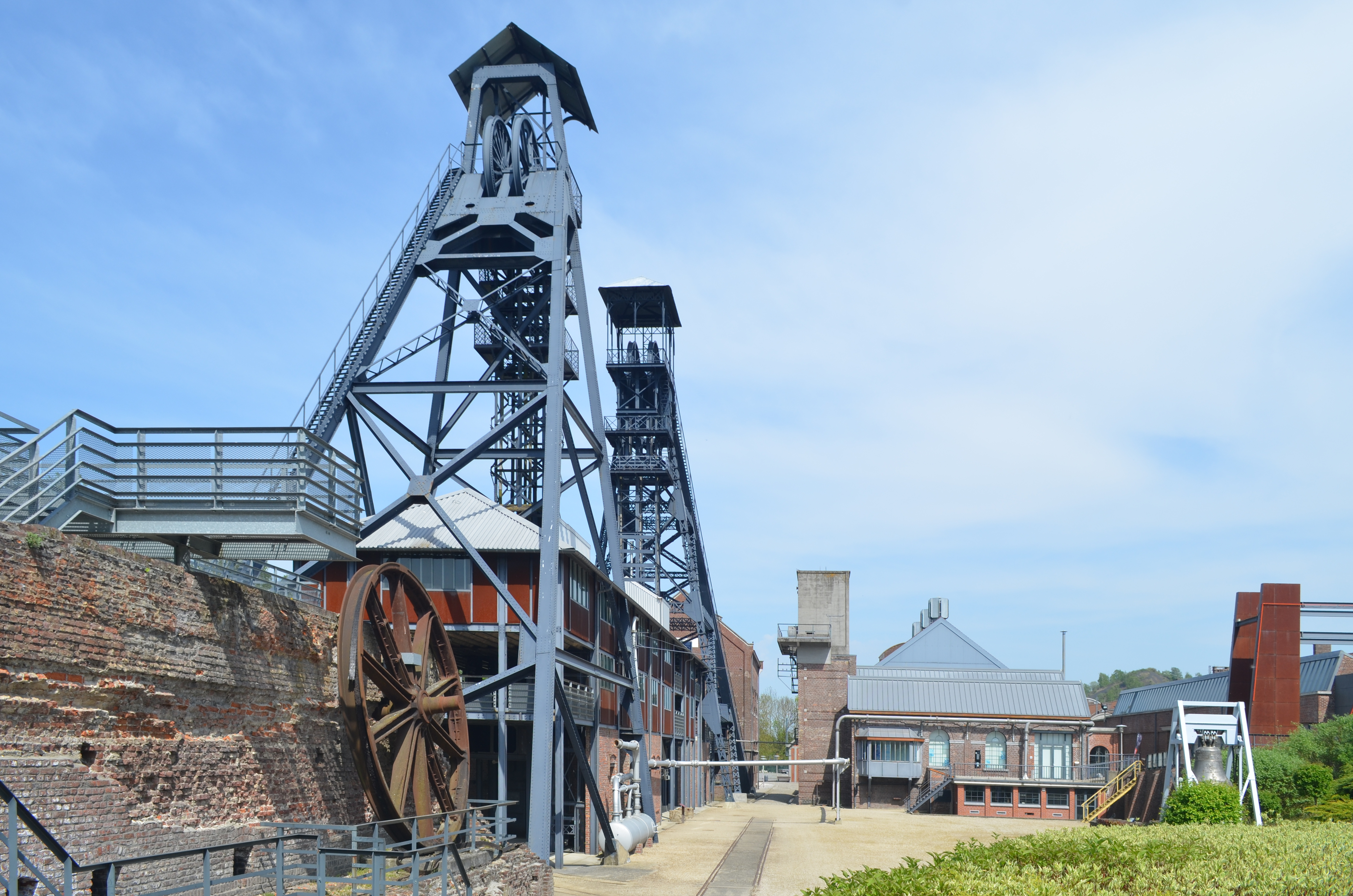 Marcinelle (Charleroi-Belgium) - Bois du Cazier. View of the two headframes.